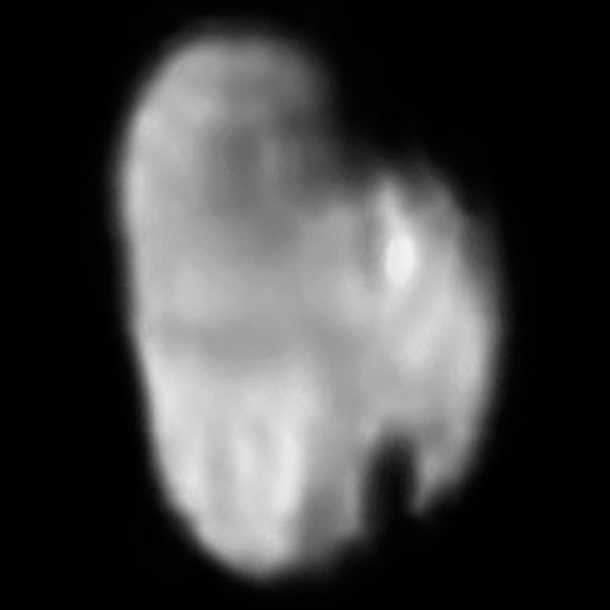 Hydra imaged by the LORRI instrument aboard the New Horizons spacecraft on 14 July.